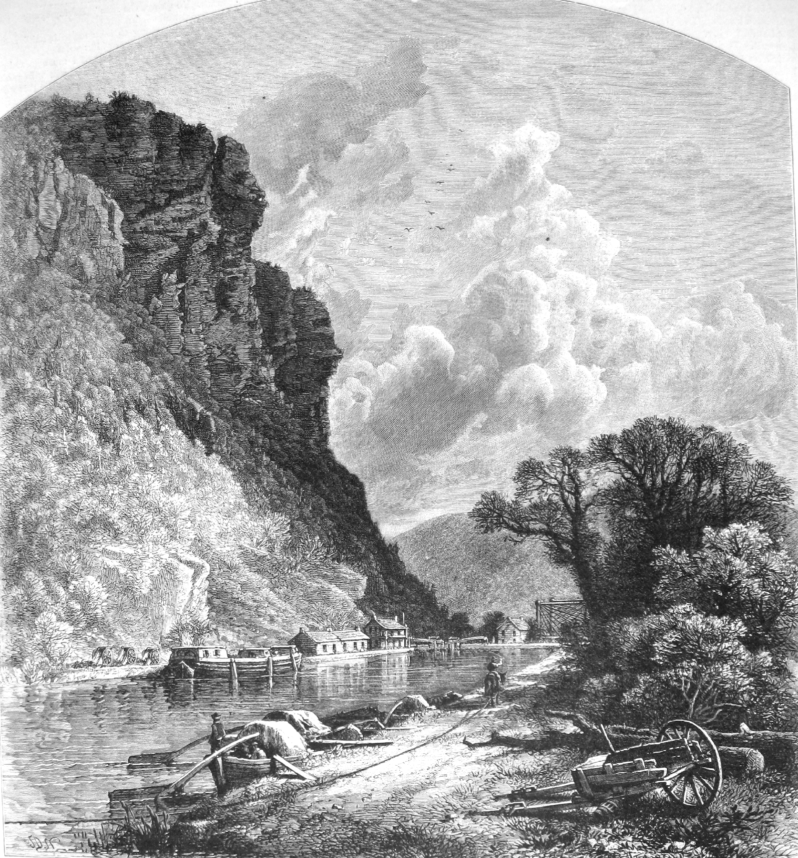 Maryland Heights, Harper's Ferry, engraving published in The Aldine , Vol. VI No. 7, July 1873